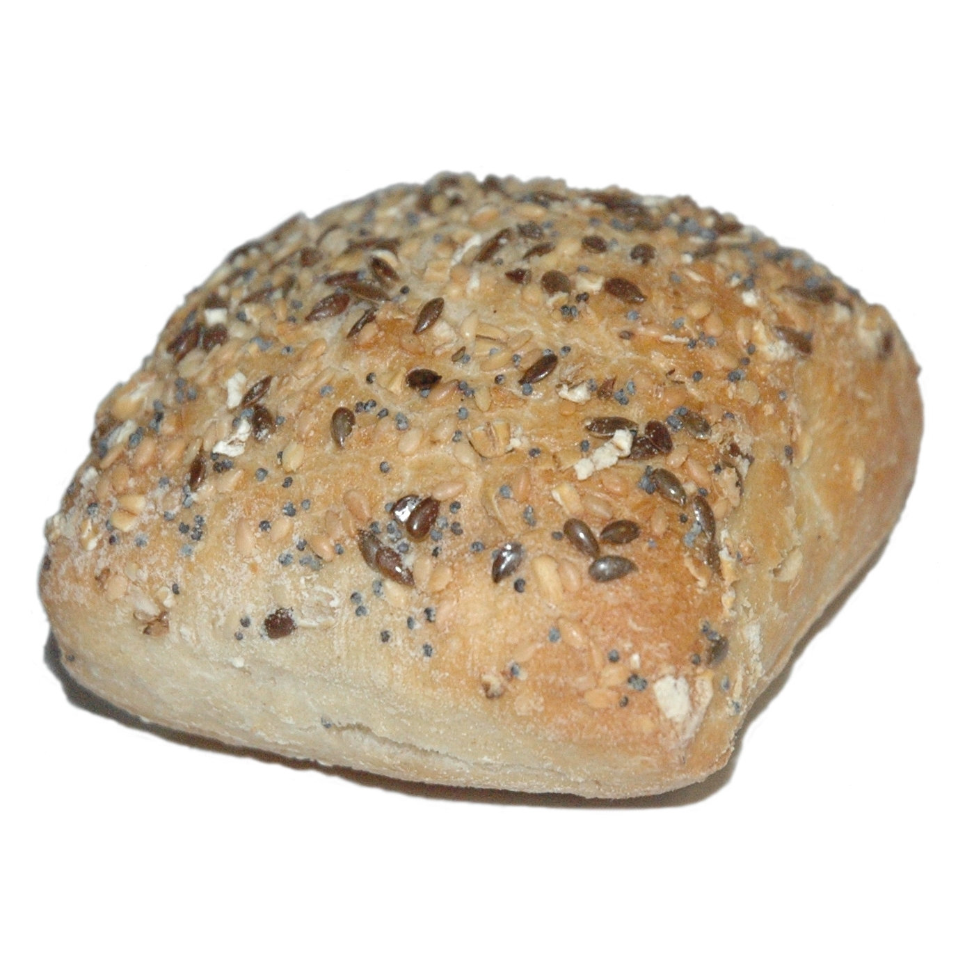 A criped up bup.